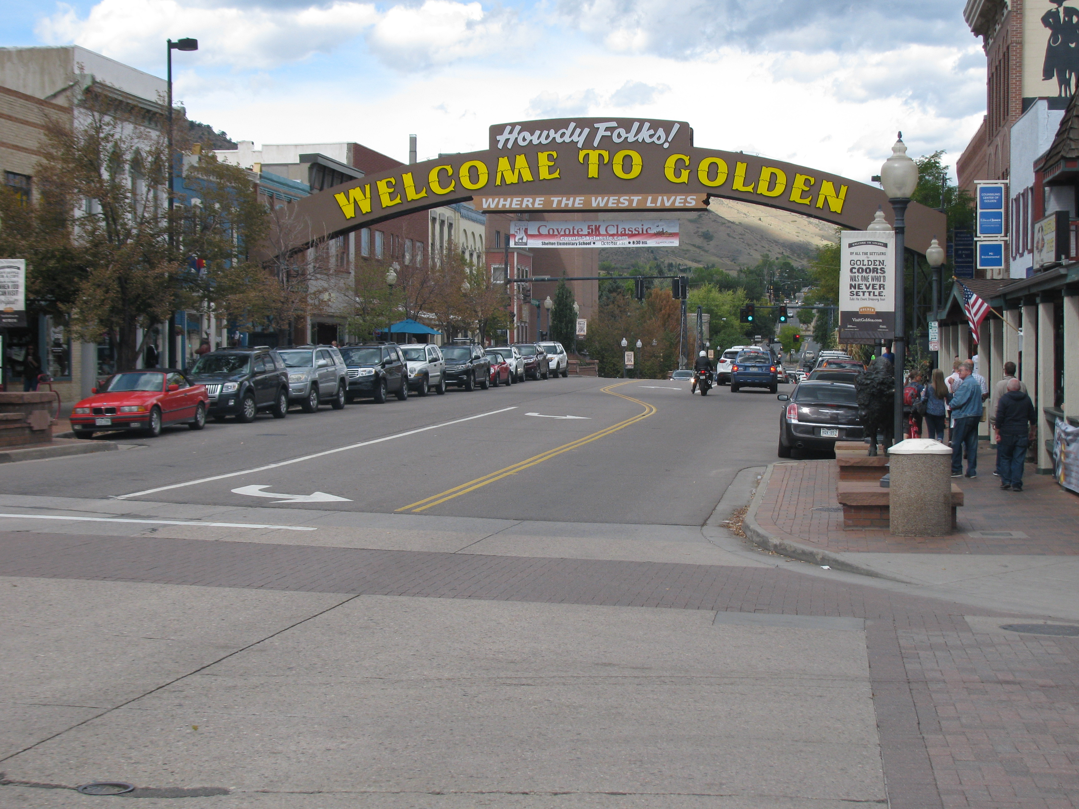 Washington Street, Golden, Colorado, United States.